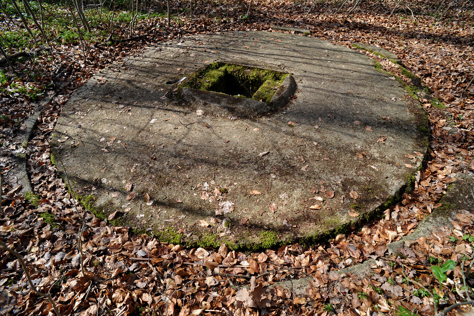 Deployment launch site NW for the Bachem Ba 349 „Natter“ at the Hasenholz forest near Kirchheim unter Teck; Baden-Württemberg, Germany.